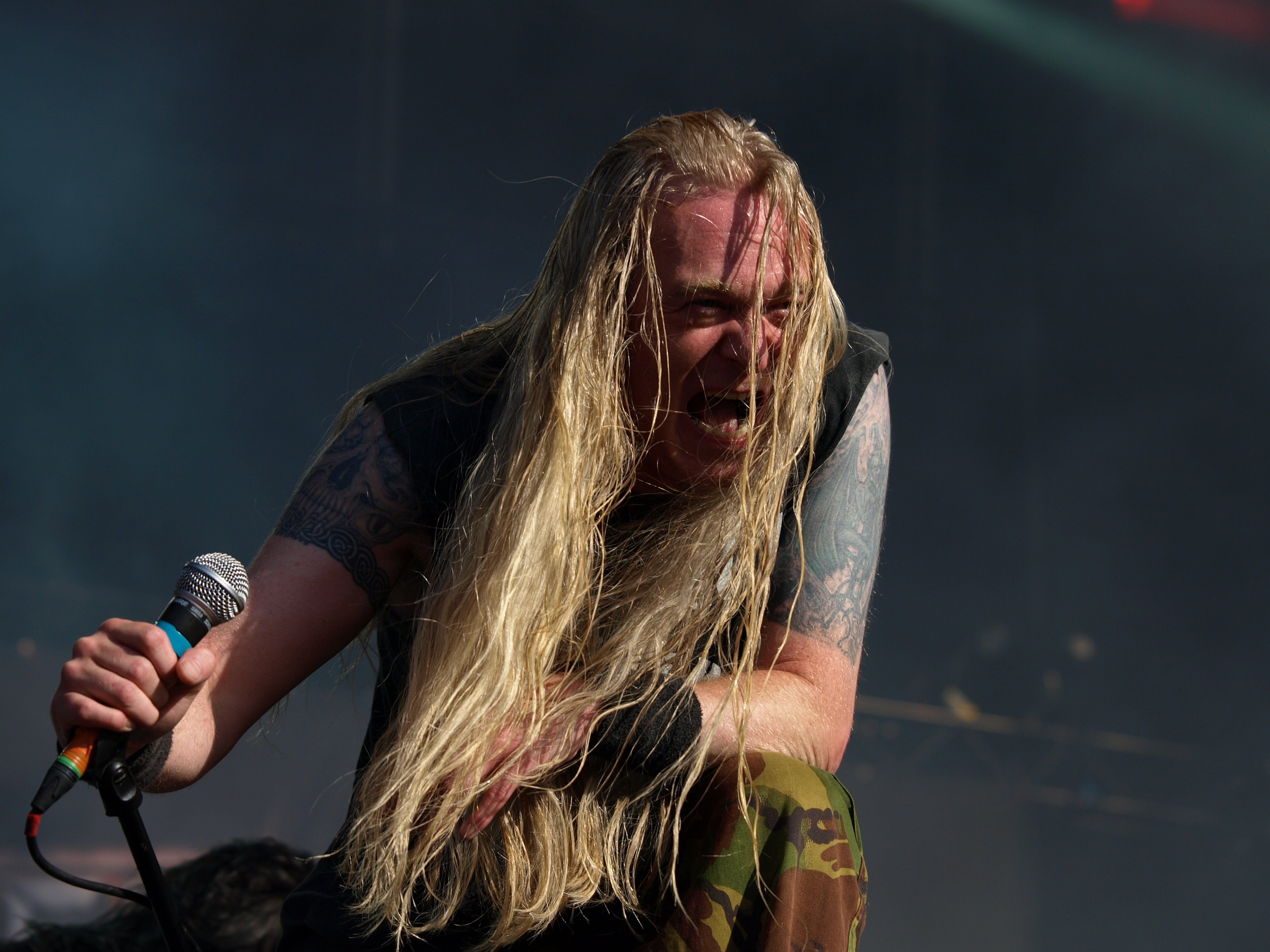 British death metal band Bolt Thrower live atTuska Open Air 2013